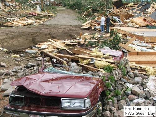 Tornado Damage at the Bear Paw Resort in Wisconsin in June 2007 (Courtesy of NWS Green Bay, Wisconsin)